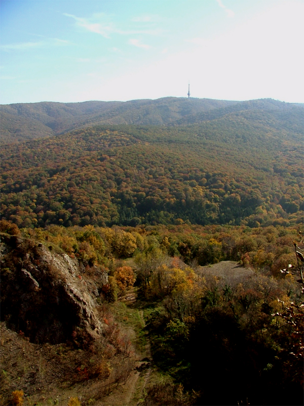 Поглед на Фрушку Гору